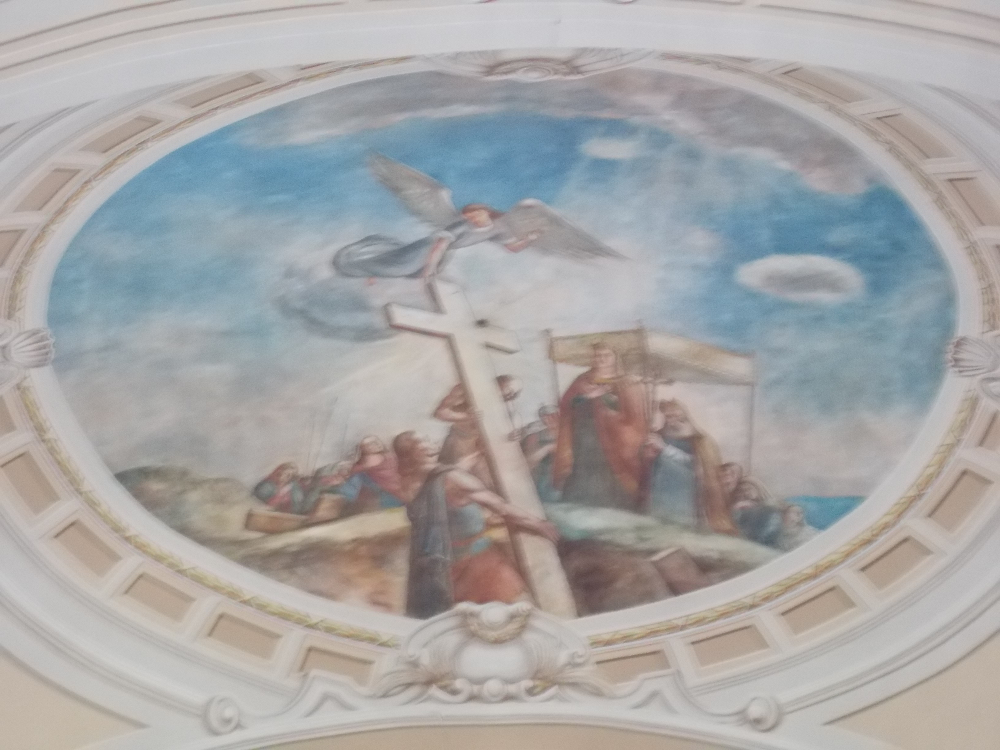 Roman Catholic parish church. Built by Ferenc Homályosi in 1822-1827. Ionic capitals on pilasters. Palladian windows. Wall painting from 18th century. Two angel satue on the altar made by Lőrinc Dunaiszky. - Kossuth Sq., Cegléd, Pest County, Hungary